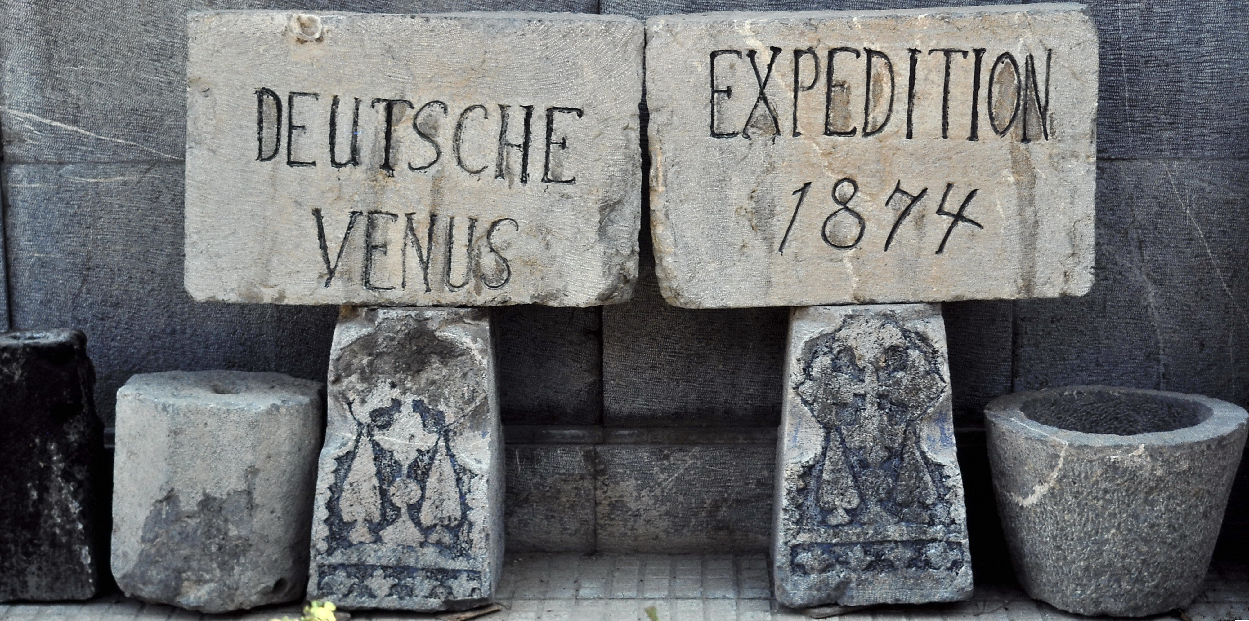 German expedition to the transit of planet Venus on 9.12.1874 in Isfahan, Iran